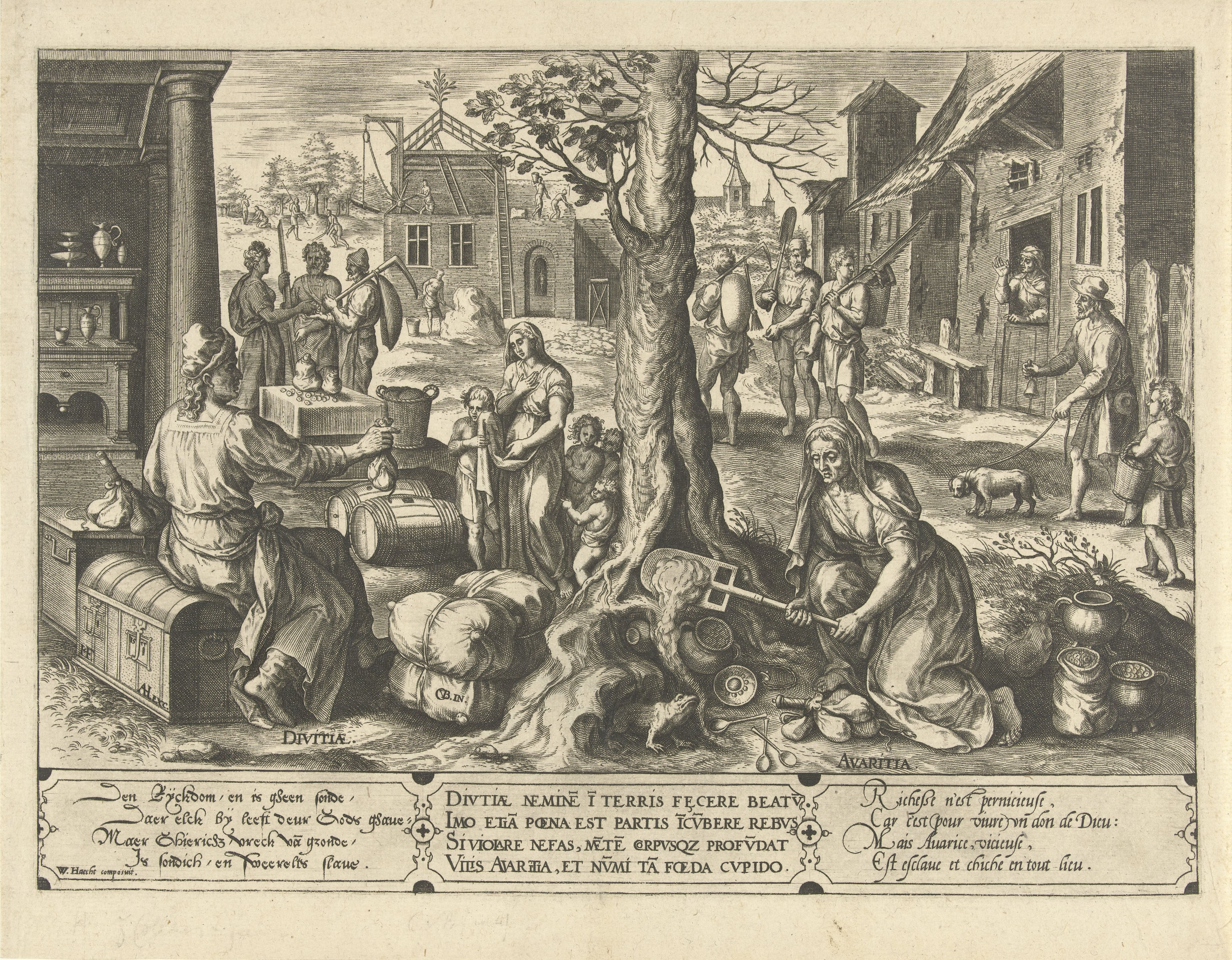 In the foreground left Wealth (Divitiae), surrounded by money boxes and stock goods. Dressed as a trader, he holds a purse of money in his right hand, which he presents to a woman and her family. Right in the foreground Avaritia. She is dressed like an old woman and buries her treasures under a tree. In the background on the left the building of a house with hard-working workers everywhere. On the right a slum with beggars. The print has a Latin, French and Dutch caption in verses. The verses praise riches as the use of God's gifts, but they condemn miserliness as a grave sin. Print published in Antwerp by Adriaen Huybrechts (I). Willem van Haecht composed the text. Design by Crispijn van den Broeck engraved by Hans Collaert.